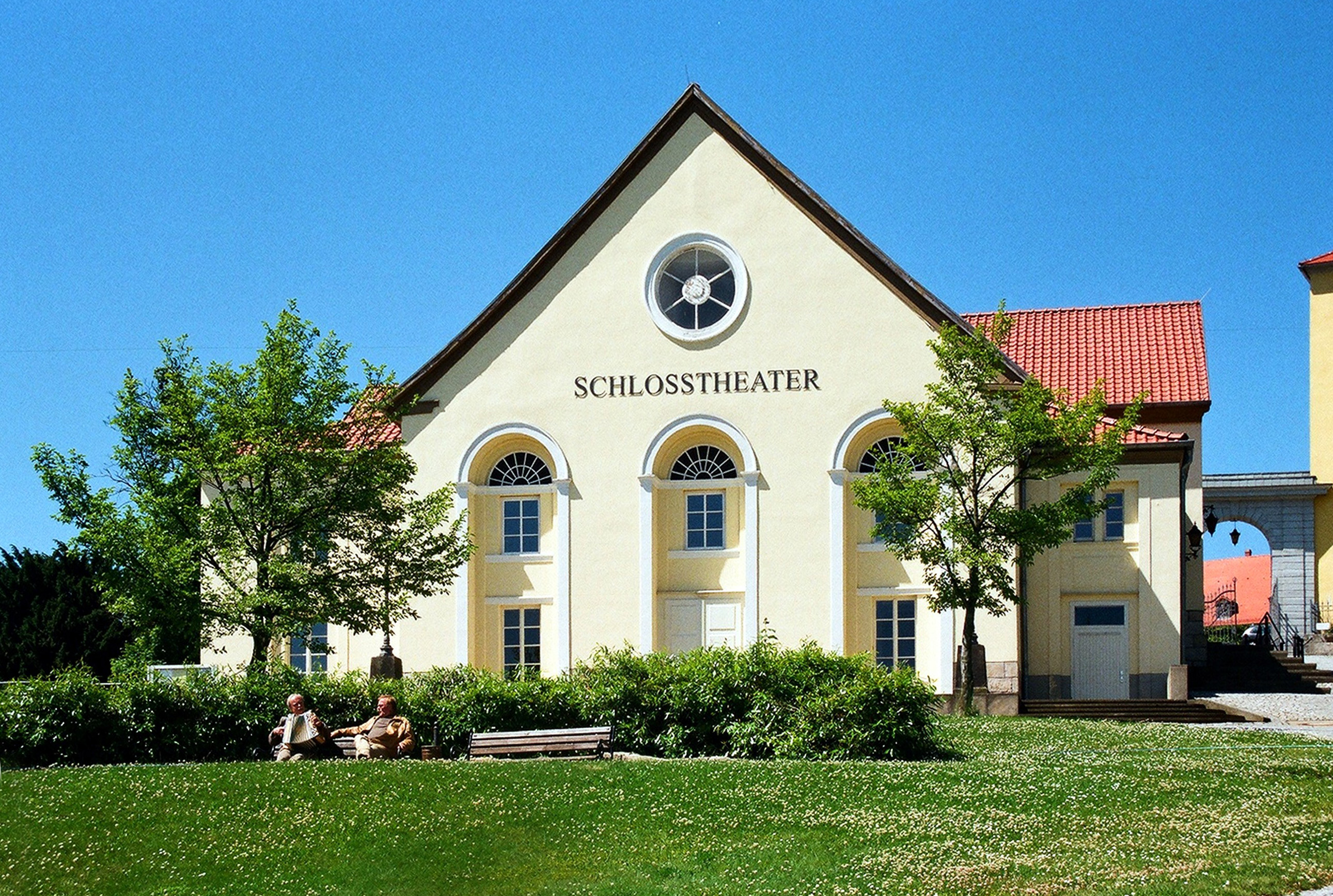 Ballenstedt, the theatre of the castle